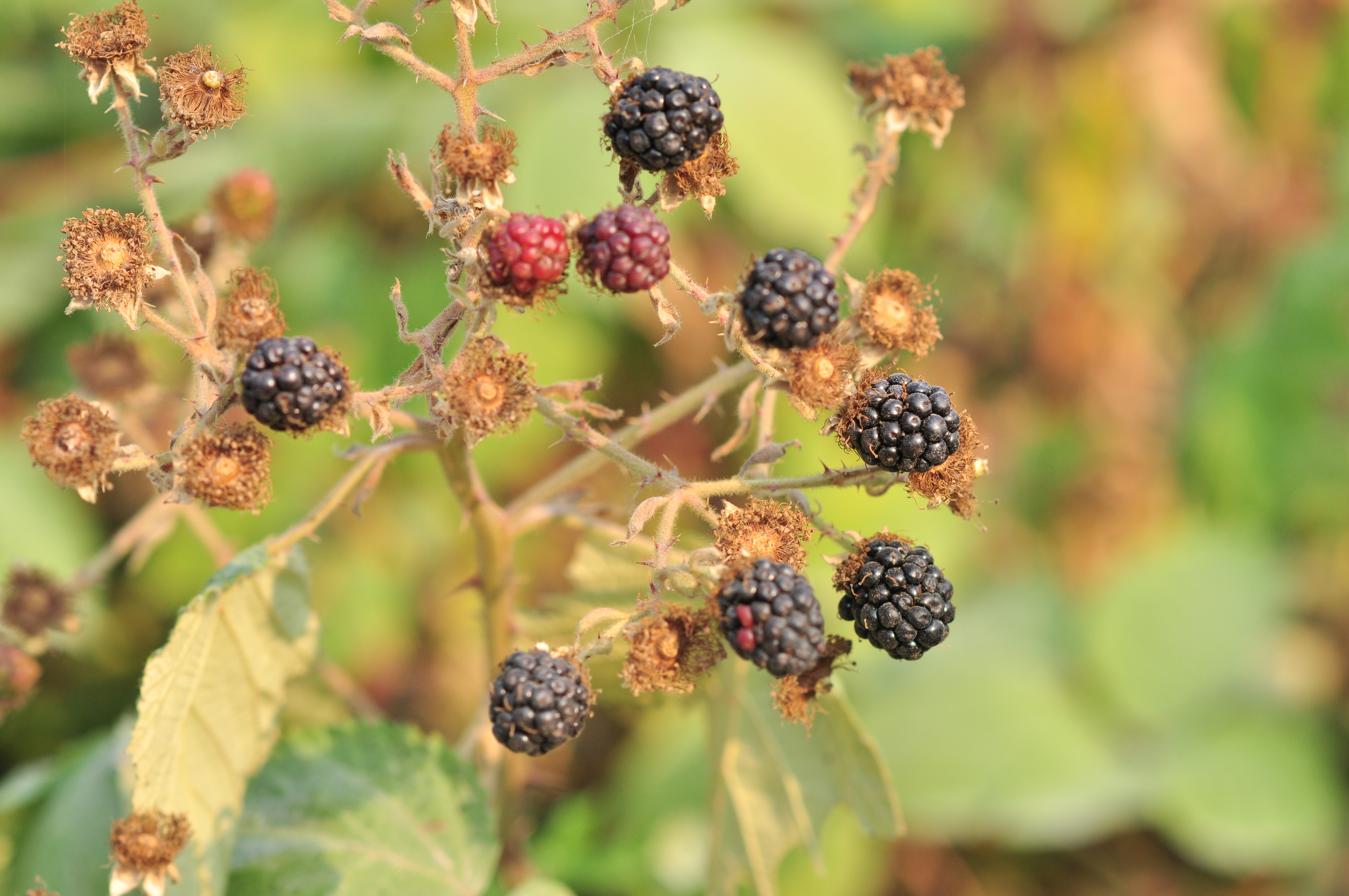 Himalayan blackberry (Rubus armeniacus), Union Bay Natural Area, Seattle, Washington, U.S.